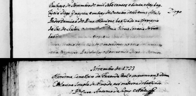 Baptism register (at the time, the equivalent of a birth record) of Diogo Inácio de Pina Manique (1733-1805), dated 13 November 1733. Parish of Santa Catarina, Lisbon.